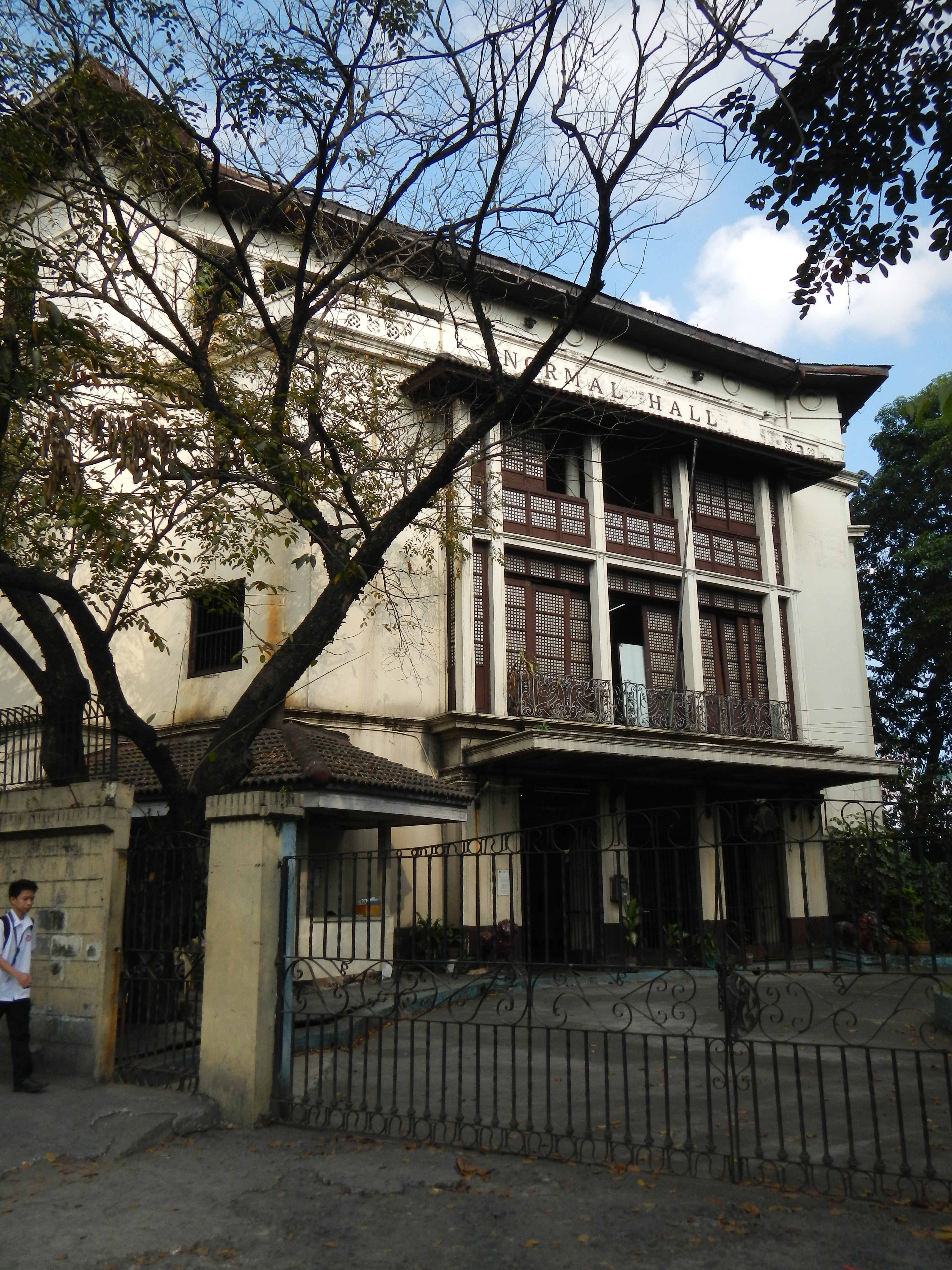 Upload Wizard photos of - a) Philippine Normal University [1] of 1901, and just in front of it is the b) Technological University of the Philippines[2].